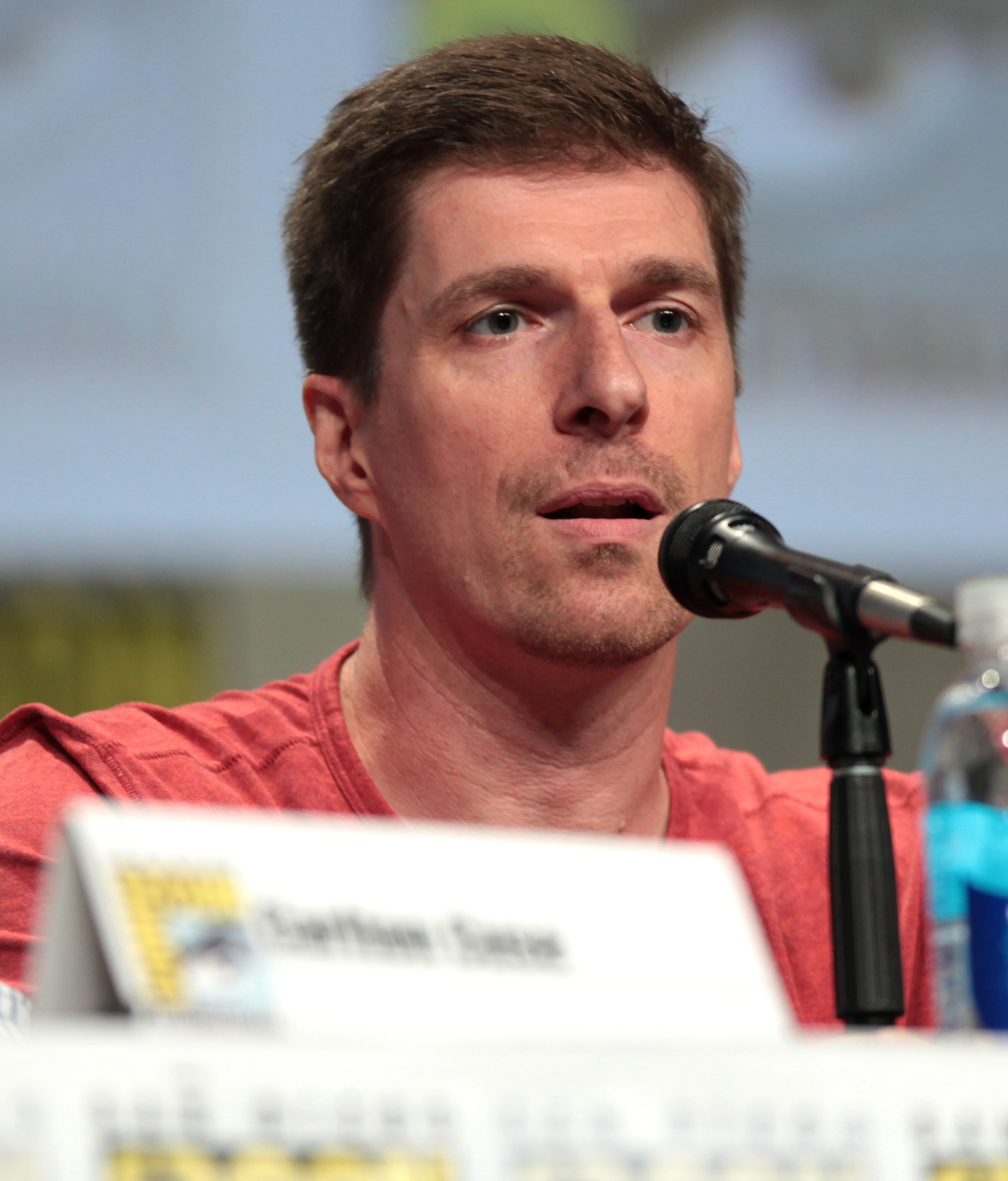 Chck Hogan speaking at the 2014 San Diego Comic Con International, for "The Strain", at the San Diego Convention Center in San Diego, California.